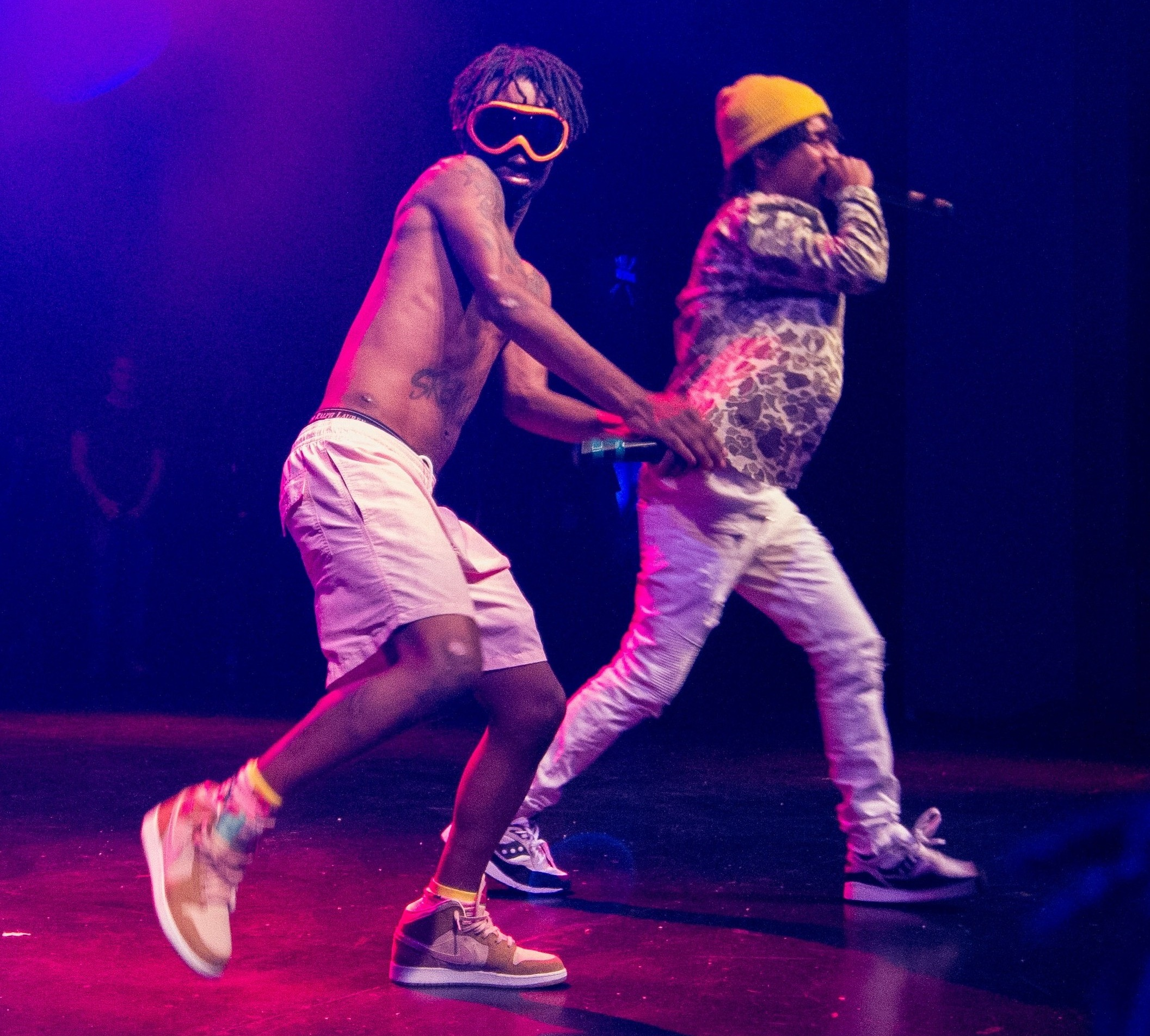 Slim Jimmy and Swae Lee in 2015